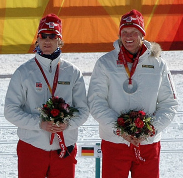 Jens Arne Svartedal and Tor Arne Hetland on the podium after receiving silver medals for the team sprint in the 2006 Winter Olympics in Torino.